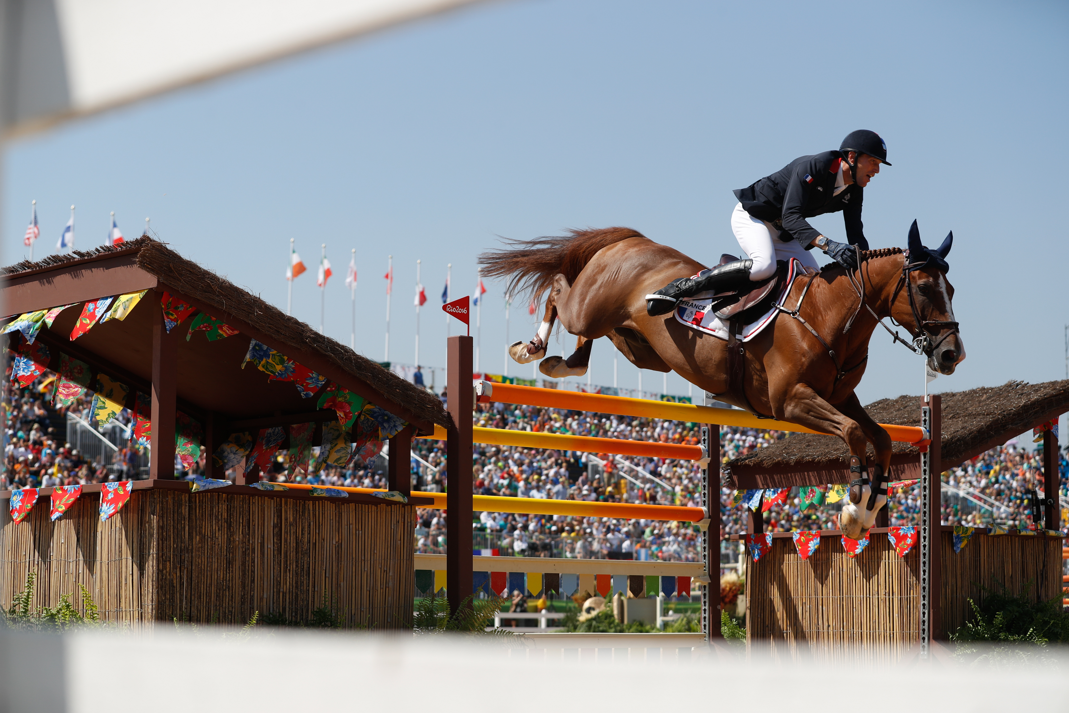 Rio de Janeiro - Cavaleiro francês Kevin Staut na competição de saltos do hipismo por equipes em que ganhou ouro nos Jogos Olímpicos Rio 2016, em Deodoro. ( Fernando Frazão/Agência Brasil)